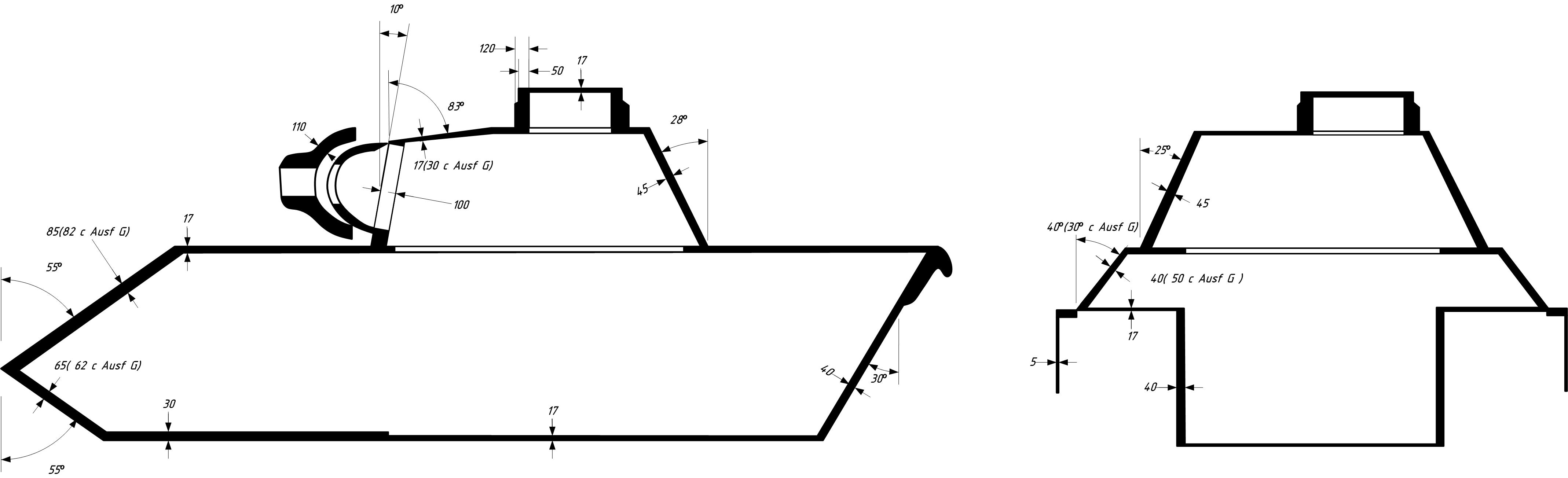 Scheme of Panther tank armour